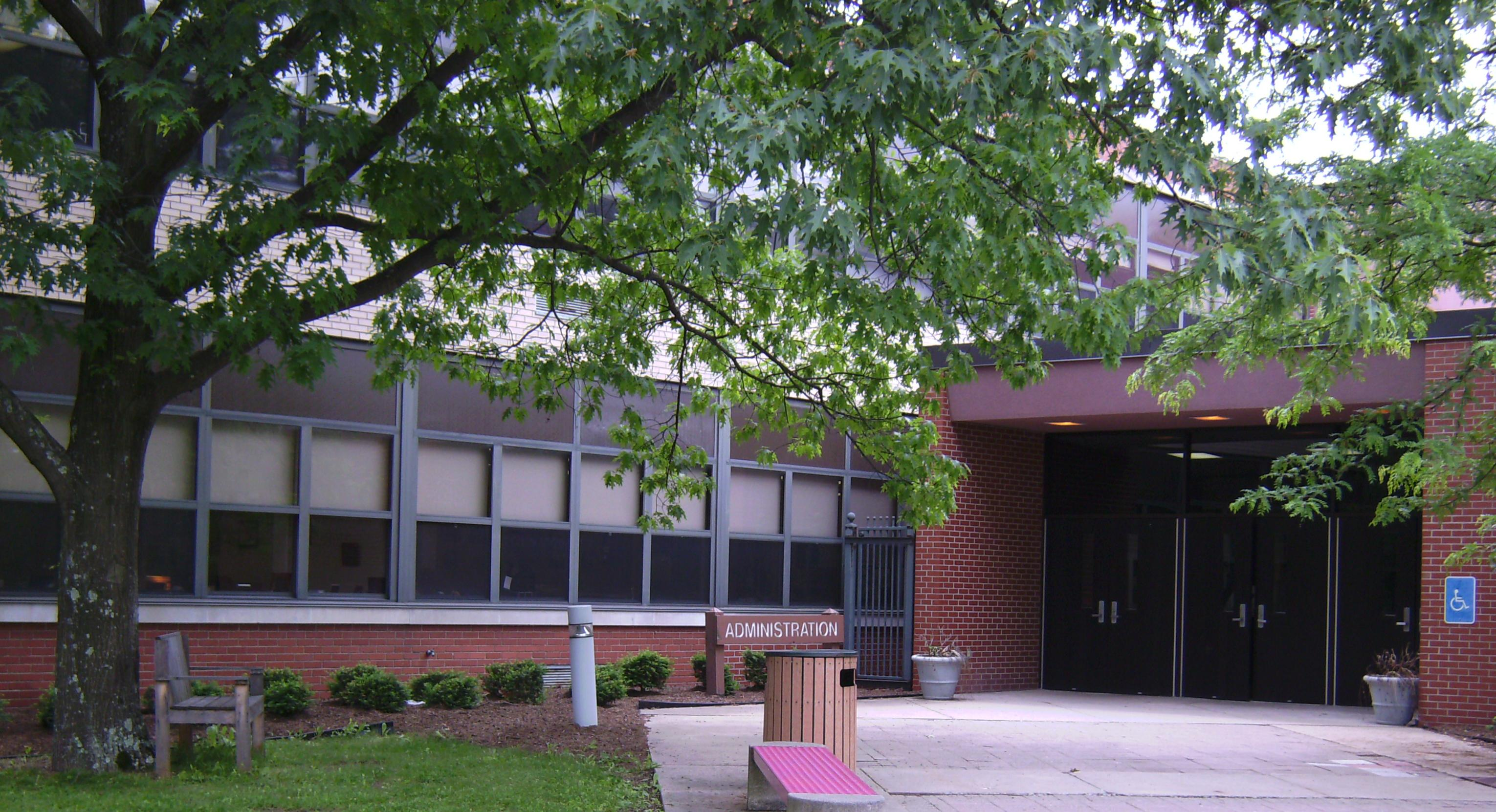 Thomas Jefferson High School